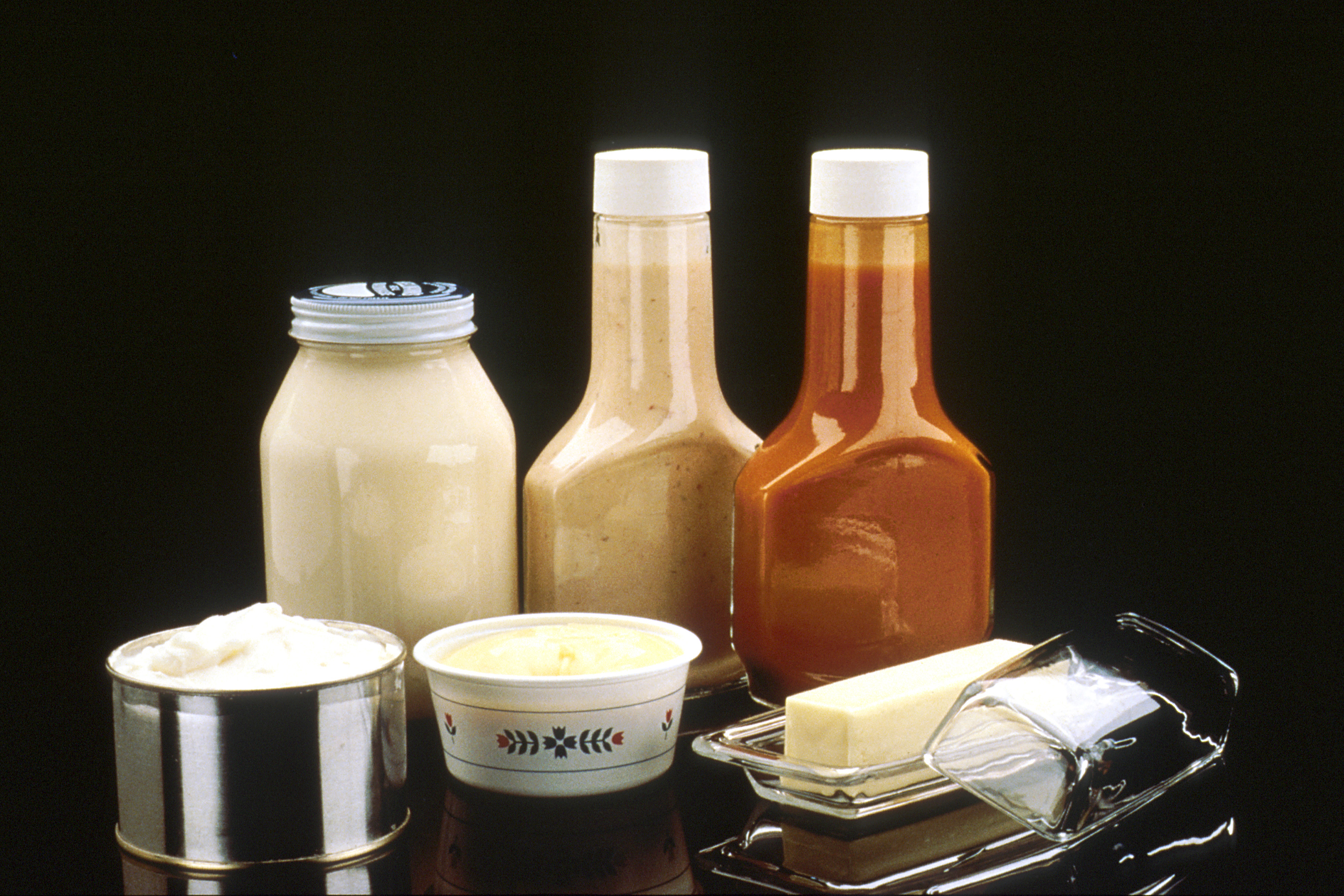 Shown are butter, margarine, mayonnaise, salad dressing and shortening against a black background. All these are high in fat. AV Number: AV-8903-3942 Reuse Restrictions: None - This image is in the public domain and can be freely reused. Please credit the source and/or author listed above.